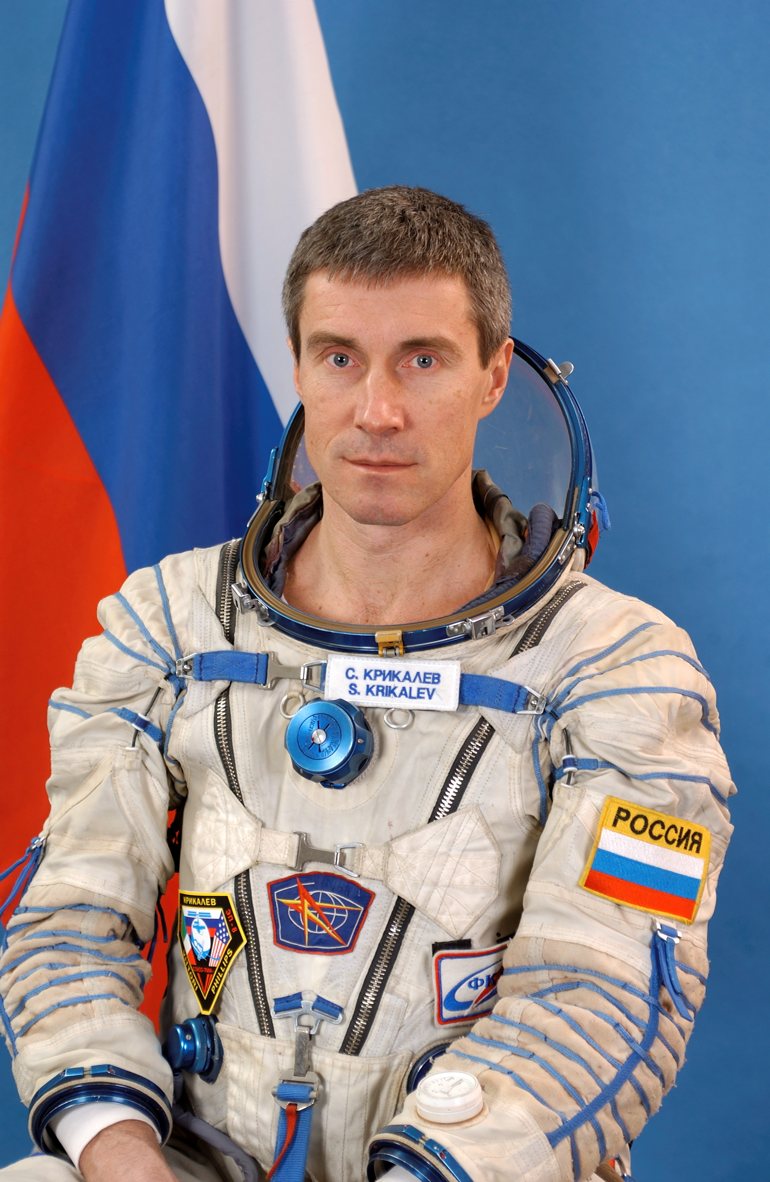 Cosmonaut Sergei Krikalev, Russia's Federal Space Agency, Expedition 11 commander, Soyuz commander.